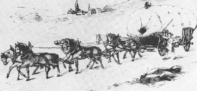 mail waggon in the 17th century